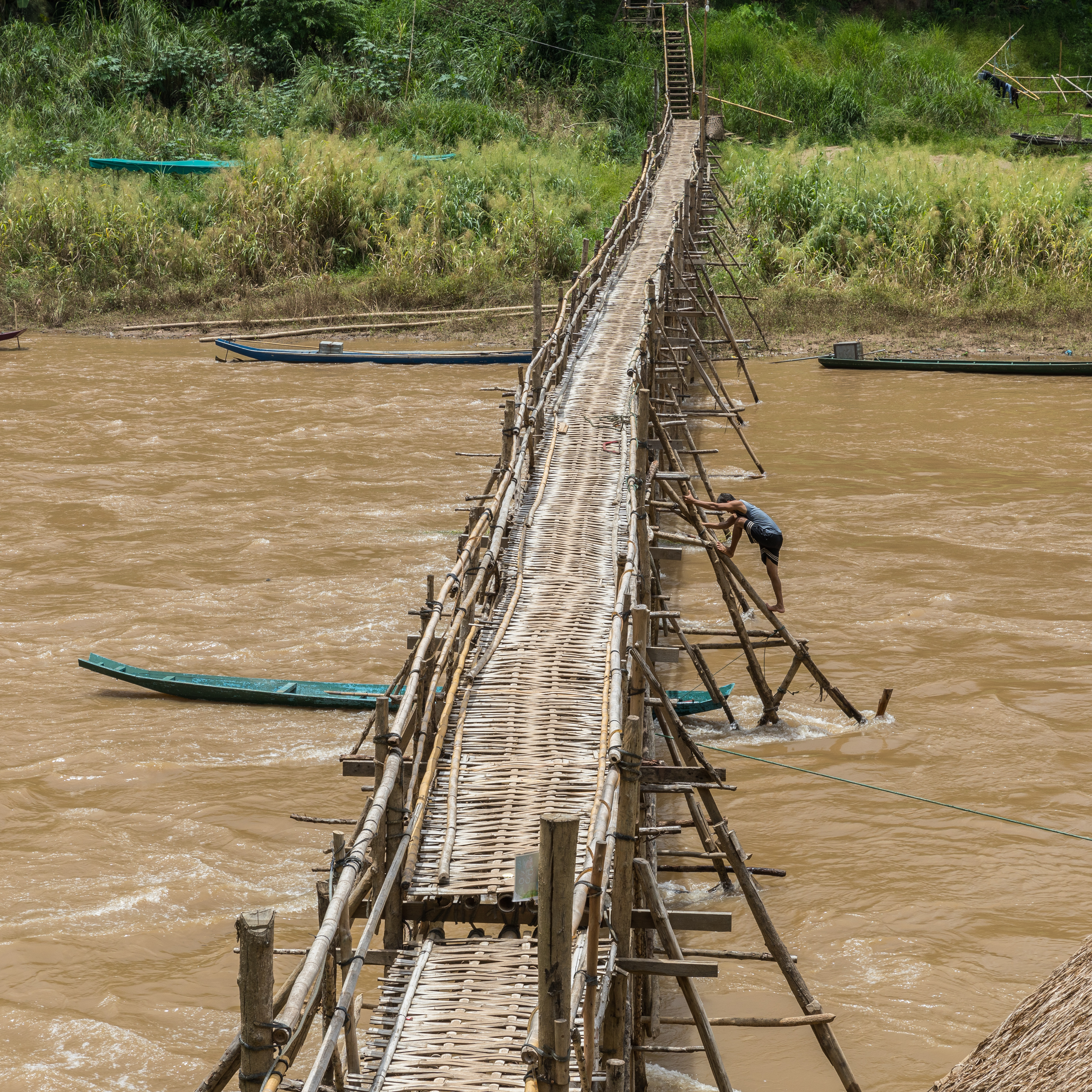 Front view of a wooden footbridge crossing the Nam Khan river, with a male worker busy at the consolidation of this structure and recklessly standing on an exterior angled pillar, in Luang Prabang, Laos